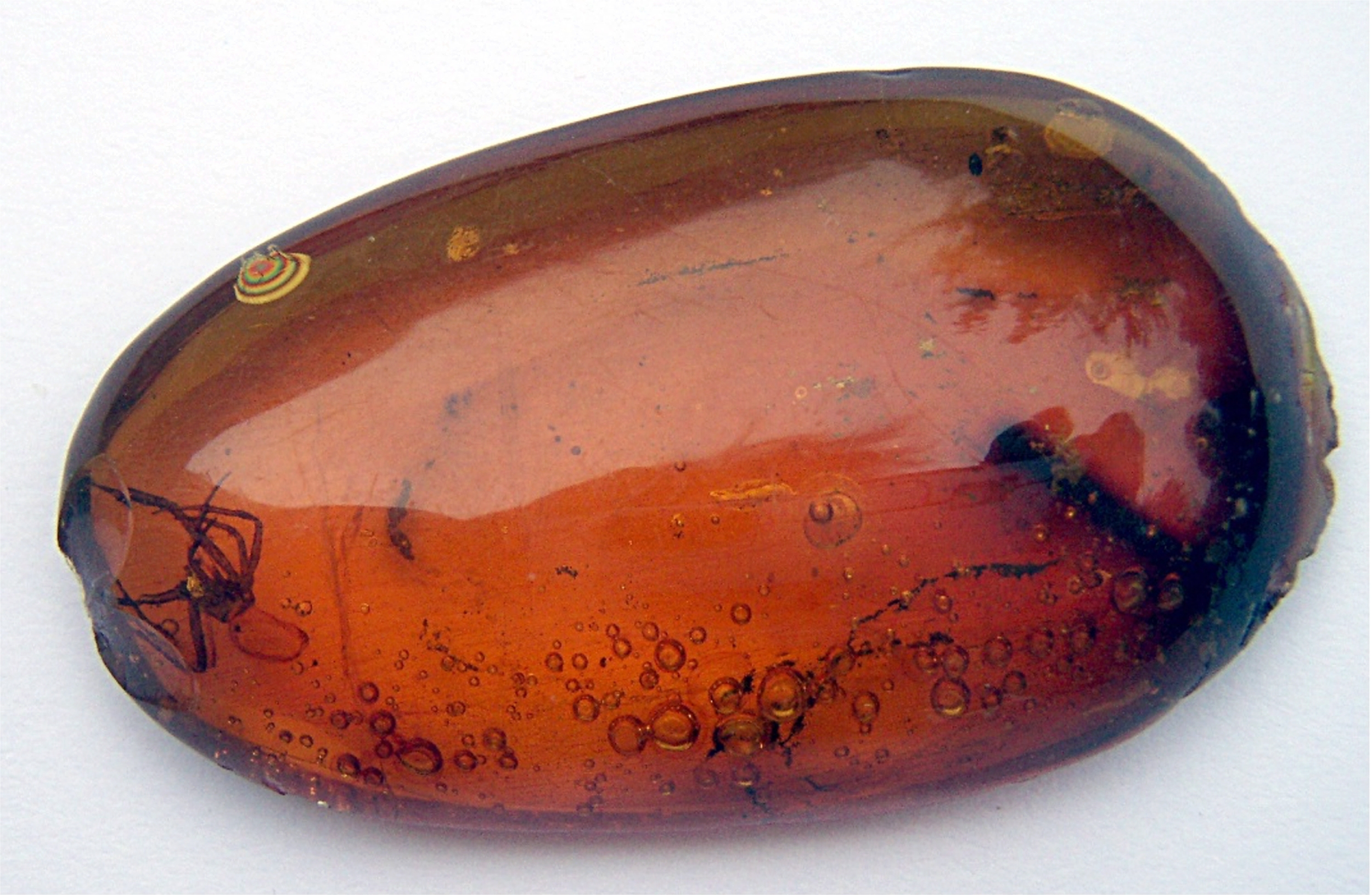 A spider in amber. Please notice the bubbles. They indicate that the spider was alive, when it got trapped.